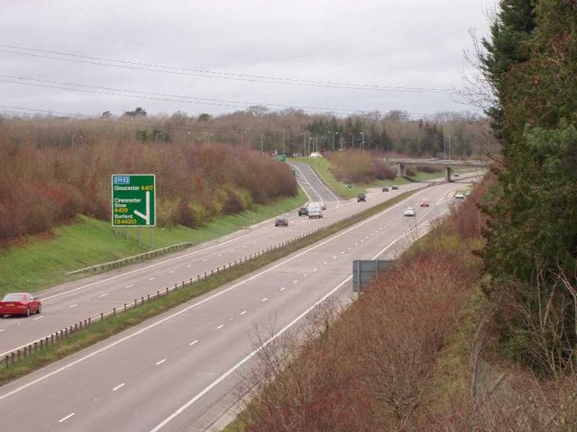 A419/A417 slip road to Cirencester Unusually, this section of dual-carriageway has a different road number in each direction (A417 northwest to Gloucester, A419 southeast to Swindon).